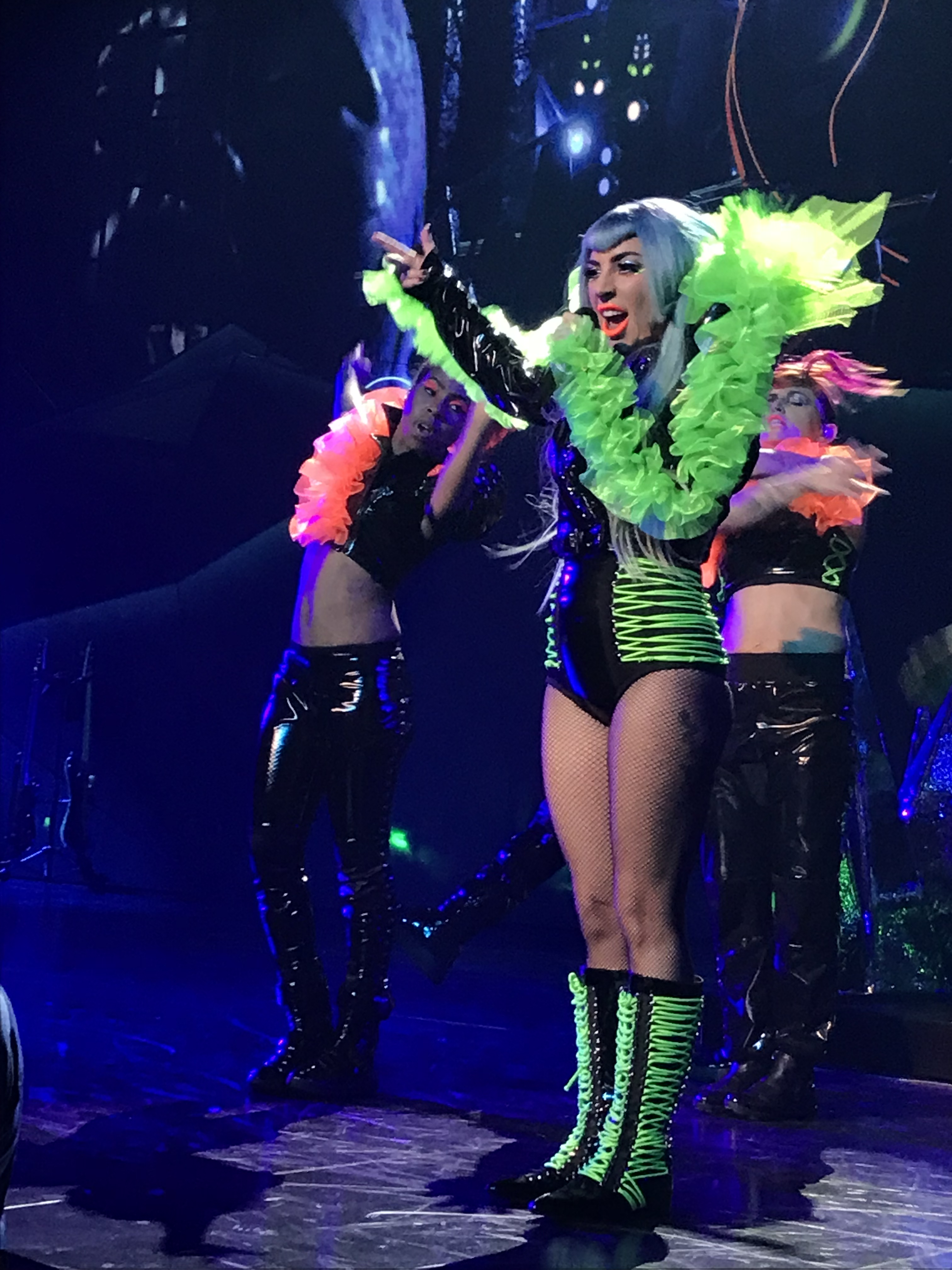 Gaga performing her track "Beautiful,Dirty,Rich" during the Enigma show on January 19th, 2019